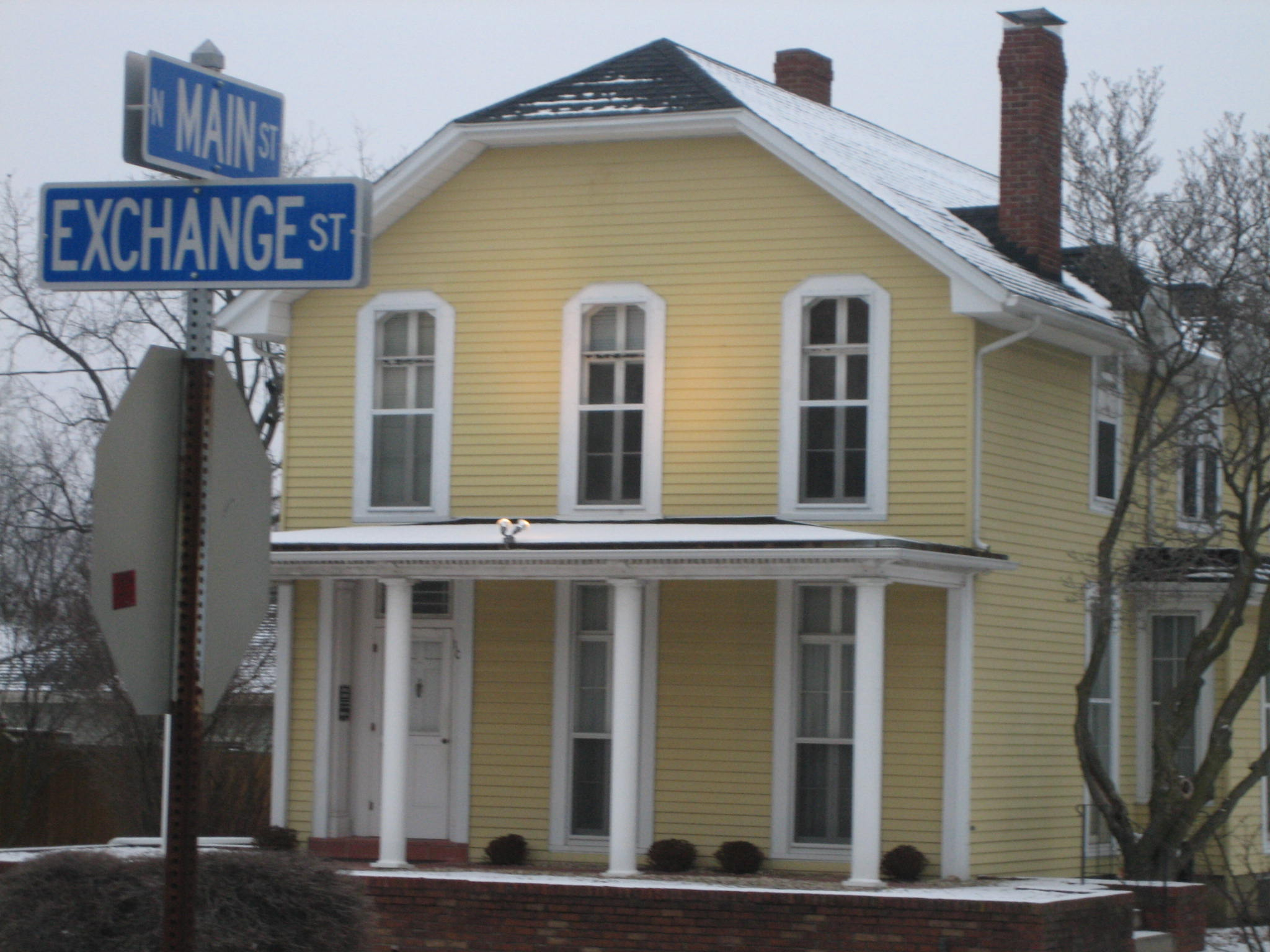 D.B. James Residence, Sycamore, Illinois. 107 W. Exchange St. National Register of Historic Places as part of the Sycamore Historic District.